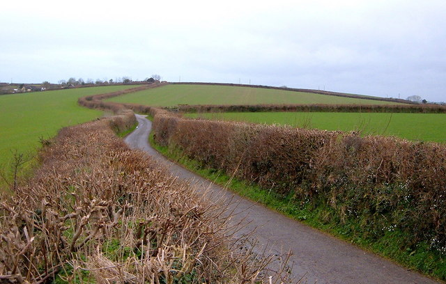 View Towards Narkurs Cross Scenic hedge-lined road leading up to Narkurs Cross, serene gently sloping green fields all around. Right turning to Minard Farm 200 yards ahead (where the other hedge is.)